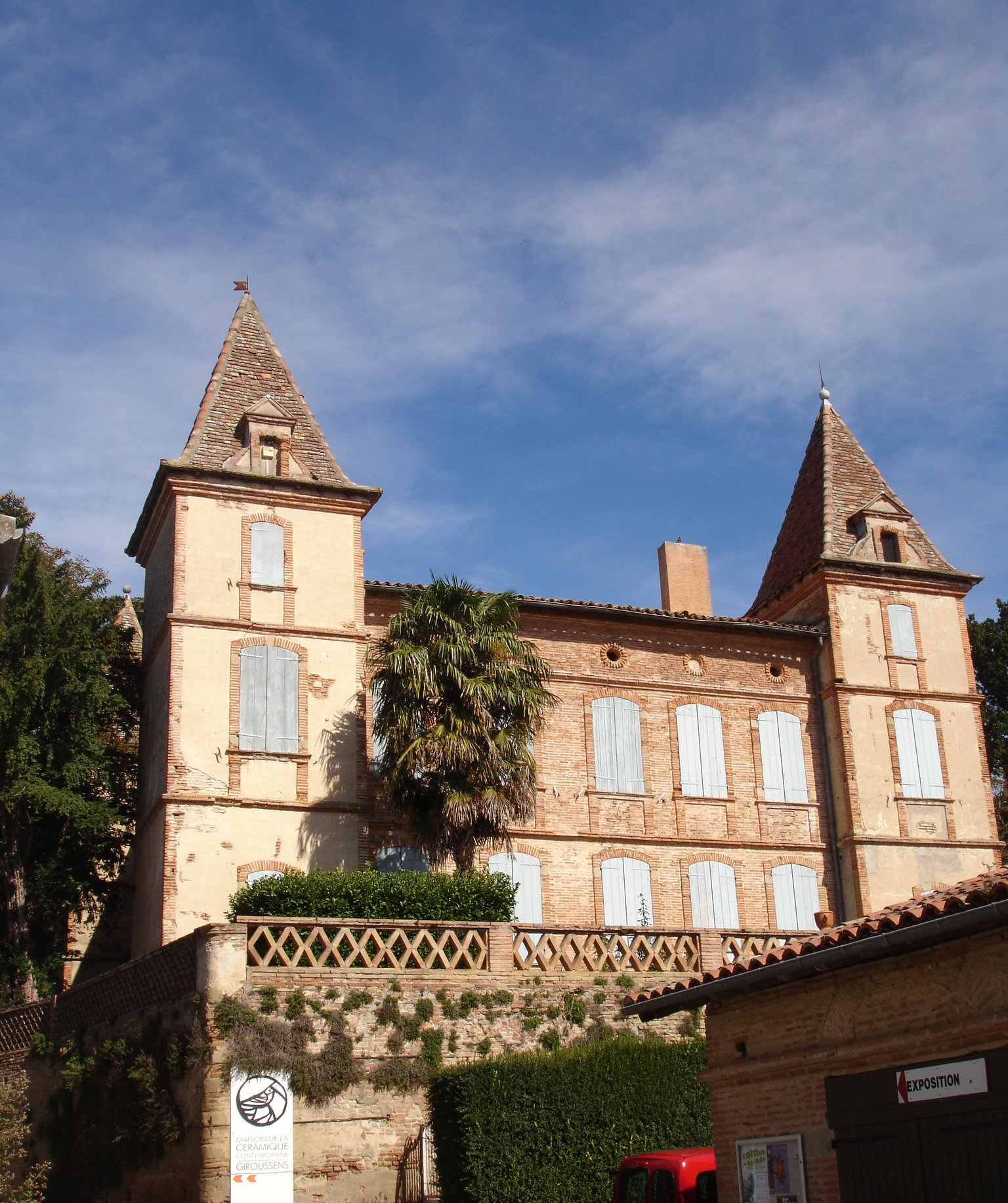 France, Tarn (81), Castle of Belbèze, at Giroussens